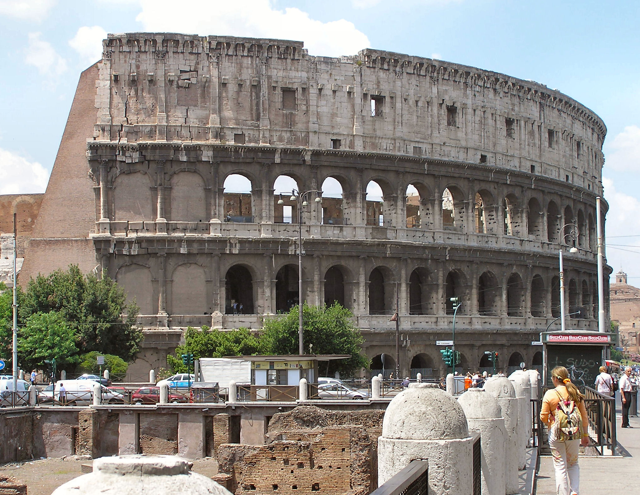 Colosseum, amphitheatre in Rome